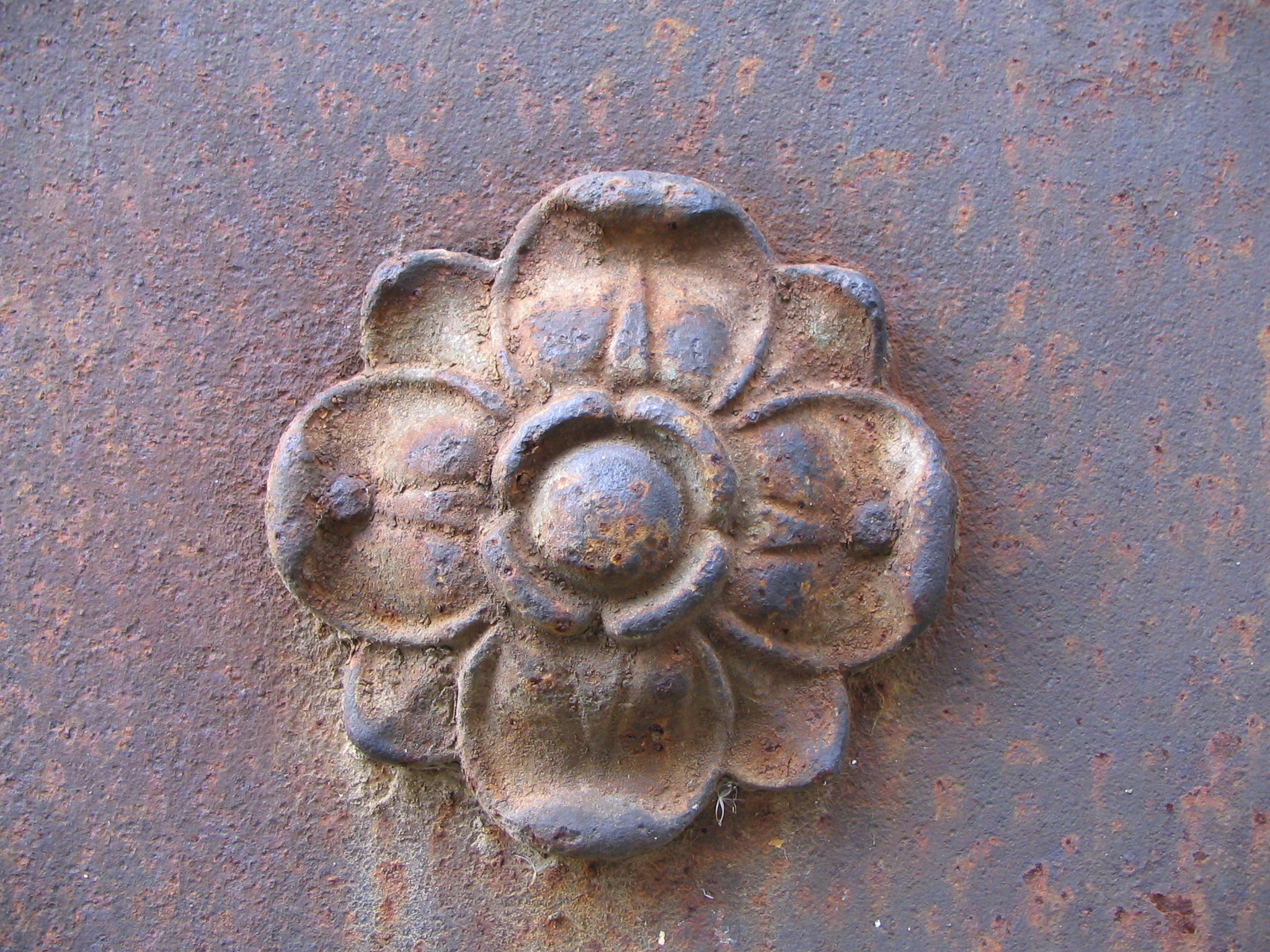 Rust on iron gate ornament, Senjak, Beograd (photo: Mihailo Grbić)